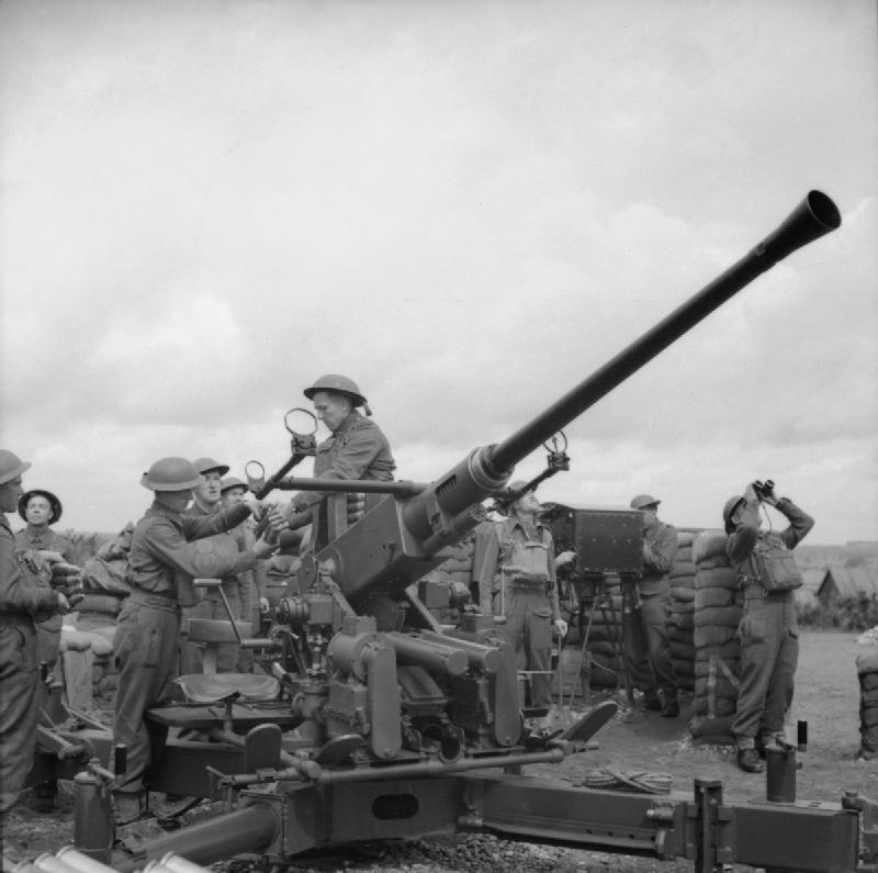 The British Army in the United Kingdom 1939-45 Bofors 40mm anti-aircraft gun of 198th LAA Battery, Royal Artillery, Farnborough in Kent, 24 May 1941.